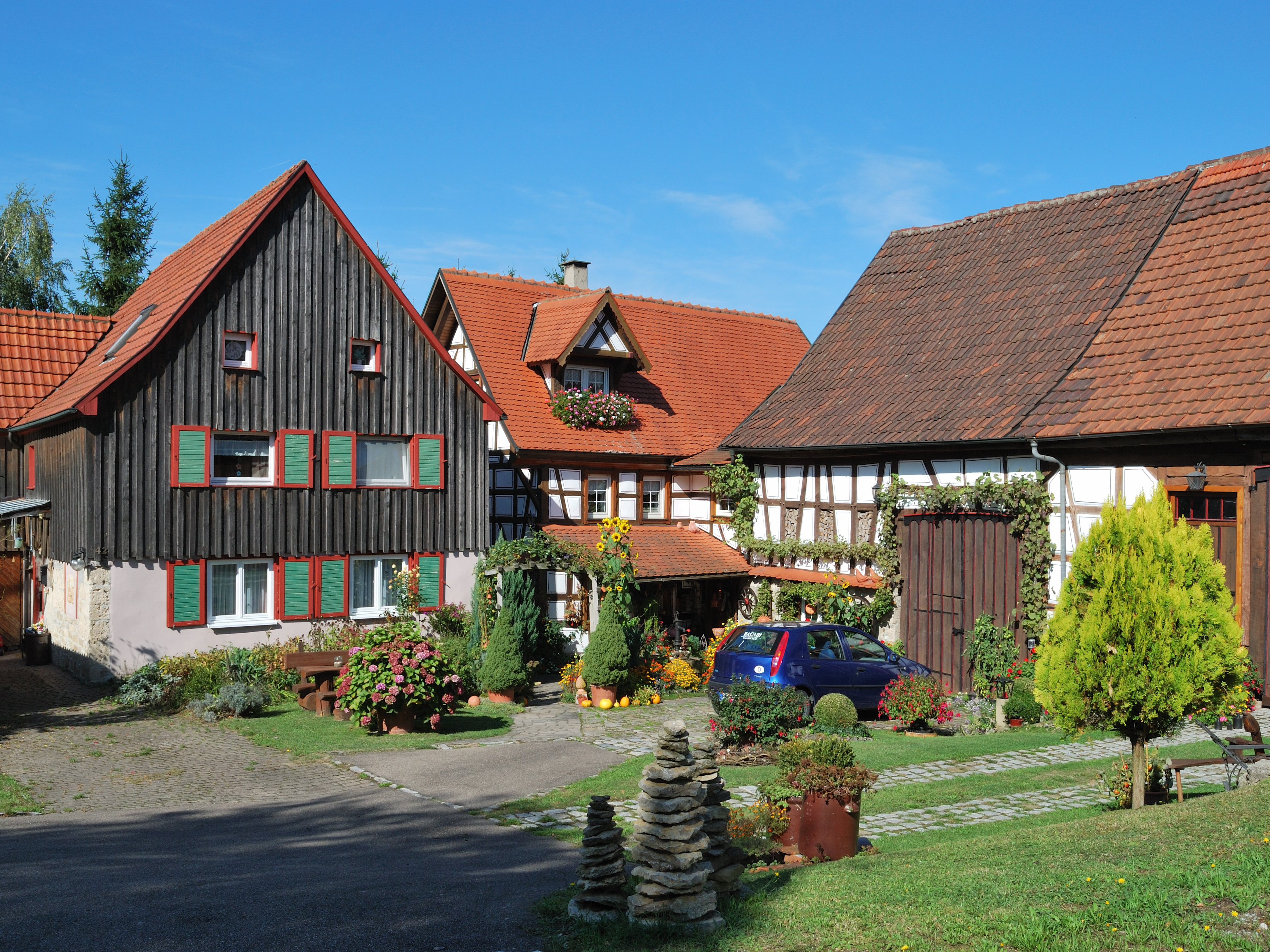 Timber framing in Jagstberg, a part of the city Mulfingen in the district of Hohenlohe in Germany.